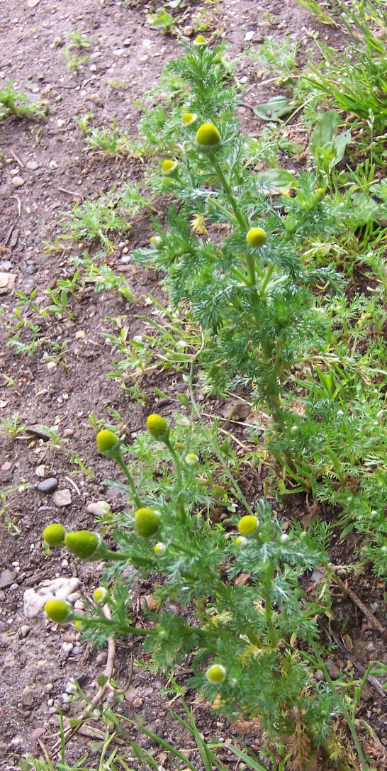 Matricaria discoidea (Disc Mayweed), flowering plants at a roadside in Cologne, Germany